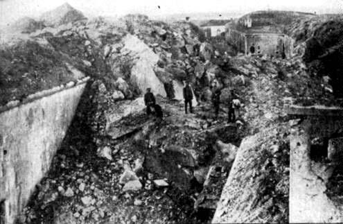 Fort Loncin after the German bombardments in the Battle of Liège, Belgium, 5-16 August 1914.